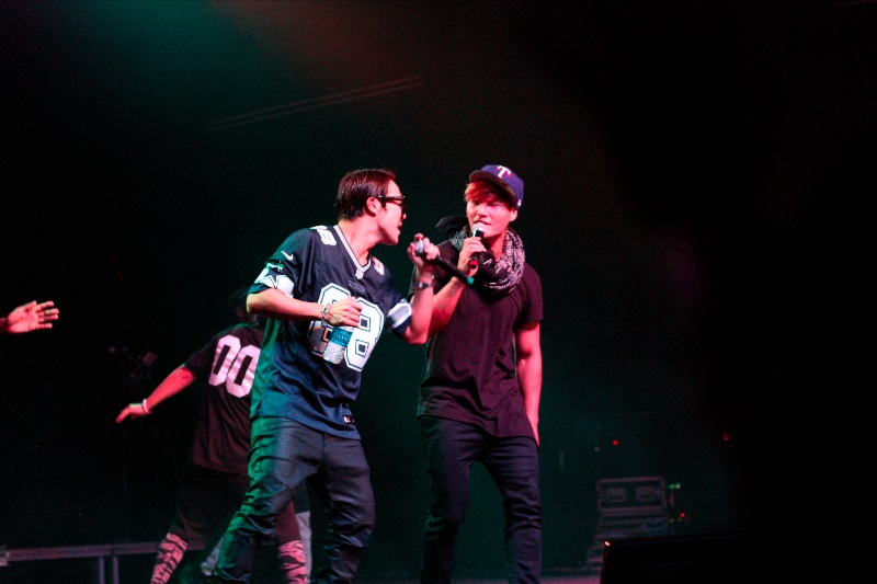 Running Man Brothers, Haha and Kim Jong-kook on stage, Running Man Bros US Tour 2014, Dallas